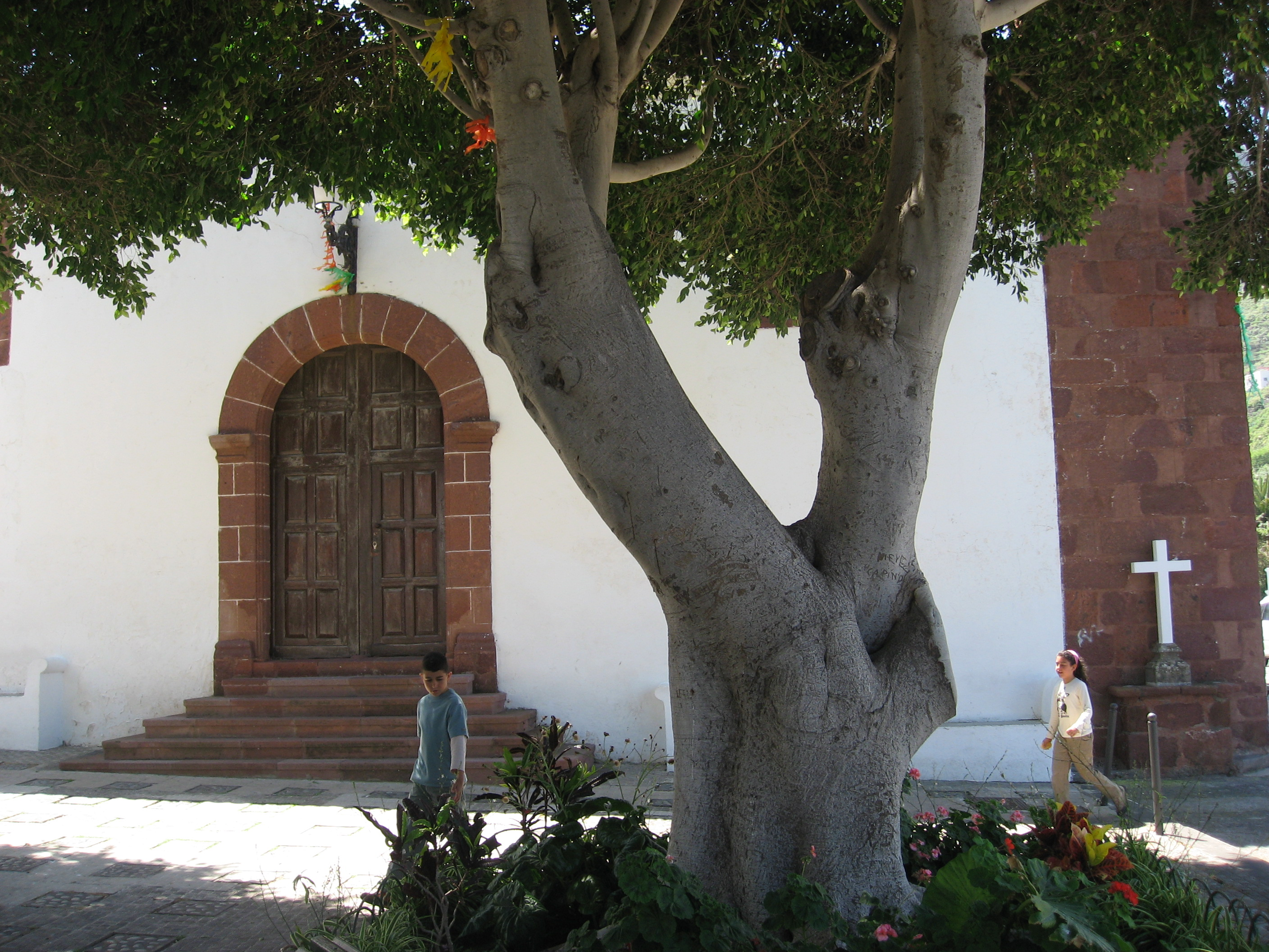 Square of Taganana. Church of Nuestra Señora de Las Nieves, Taganana (Tenerife) [partial view]. Canary Islands, Spain.